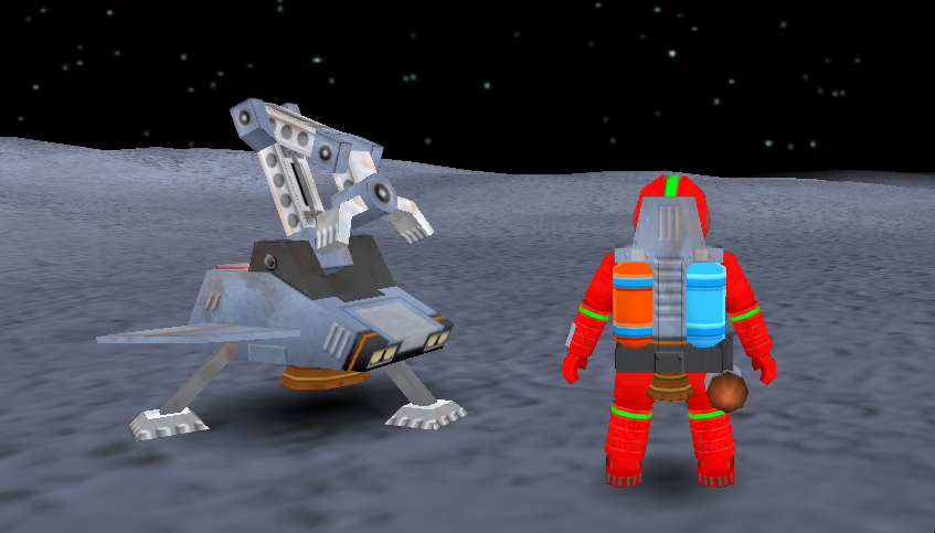 This is screenshot of bot in colobot